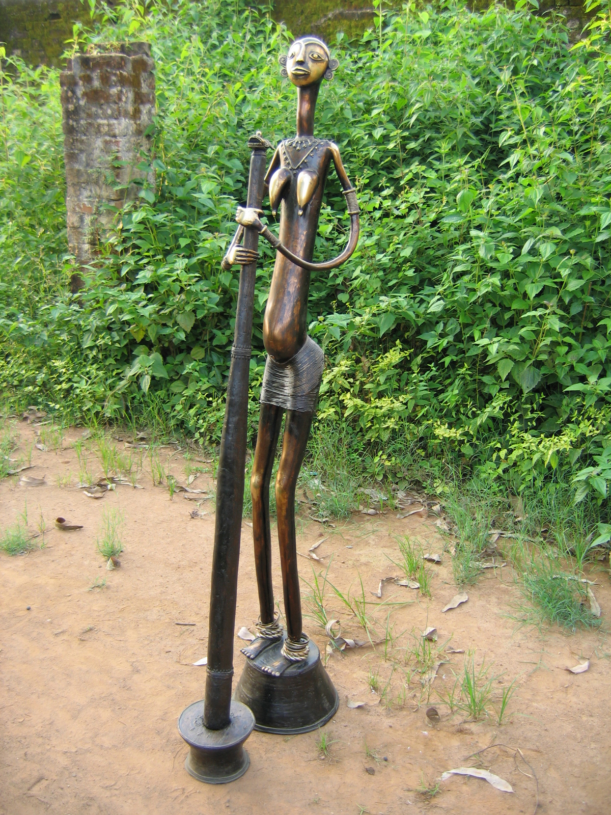 Village lady Grinding Ants for her family